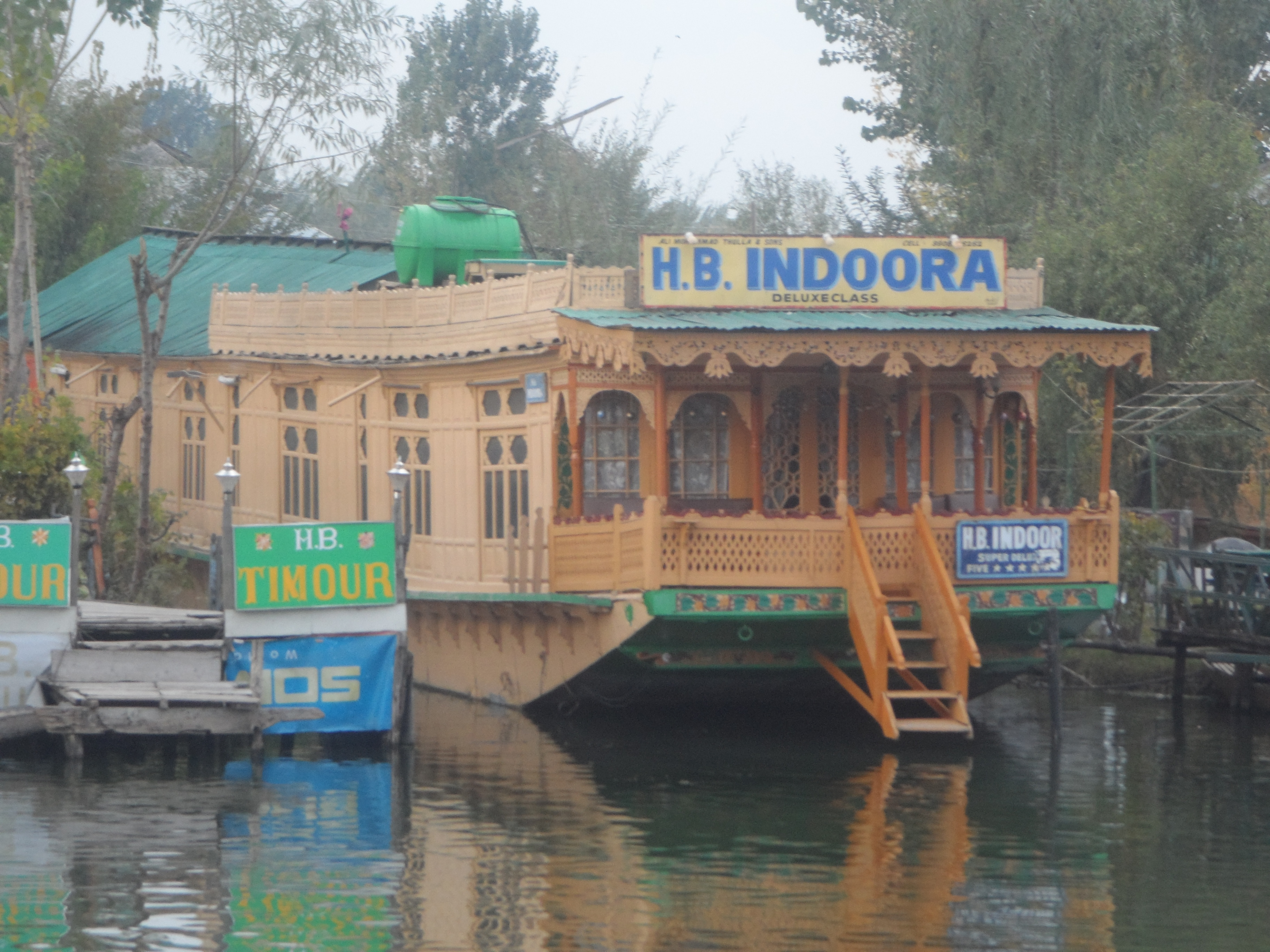 photo of houseboat